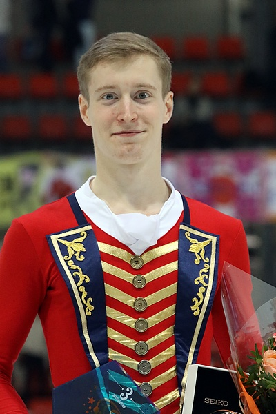 Alexander Samarin at the 2018 Internationaux de France - Awarding ceremony